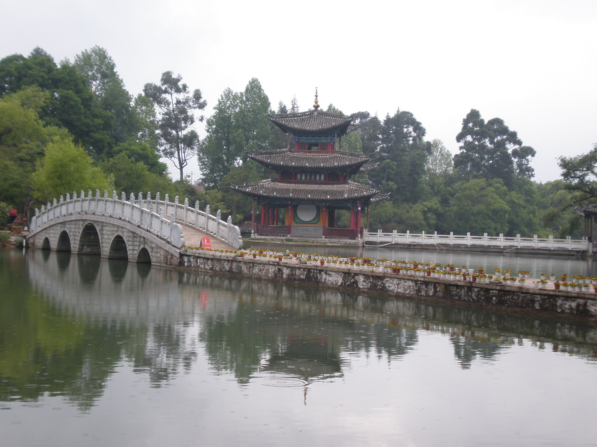 Five Arch Bridge at Black Dragon Pool, Lijiang, Yunnan, as seen from the shore.